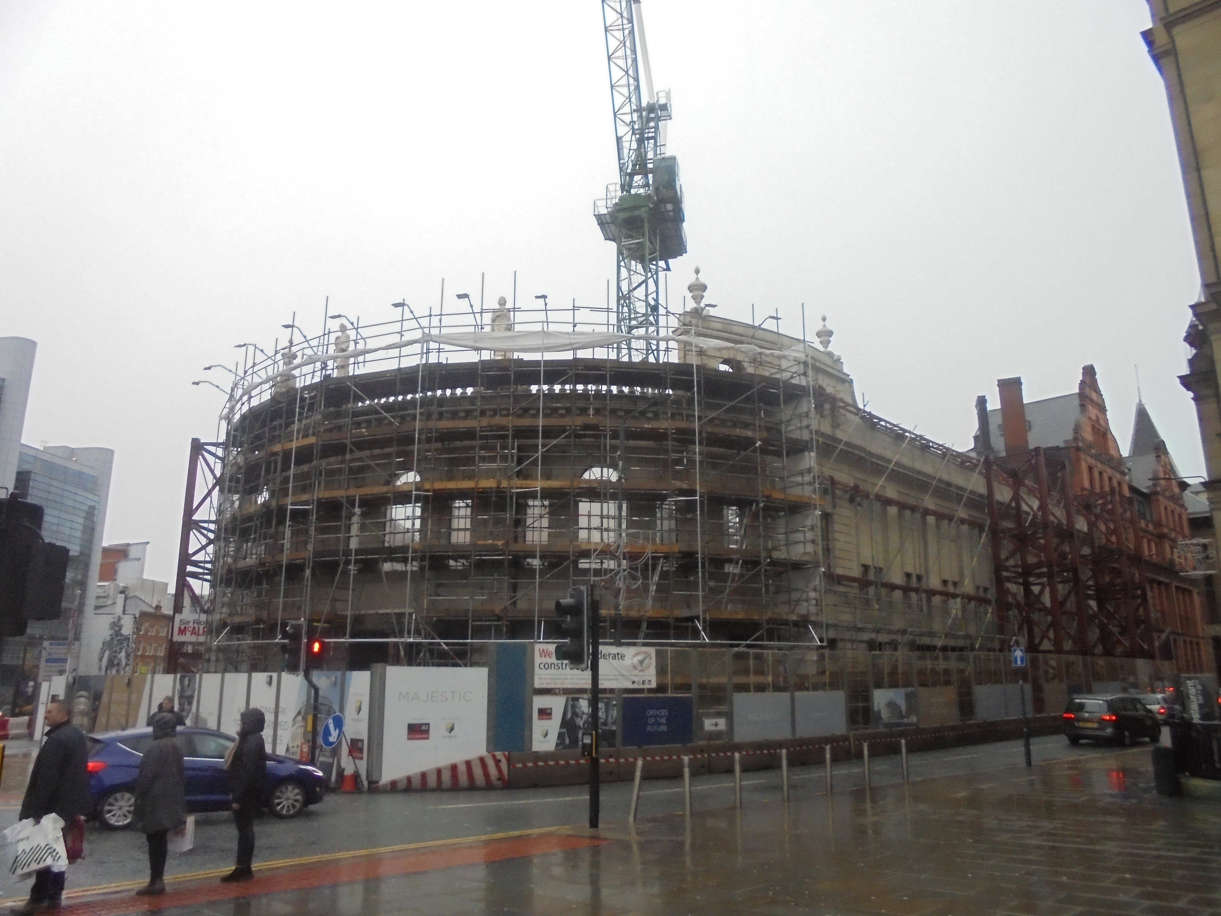 Construction work at the Majestyk, City Square, Leeds, West Yorkshire. Taken on the afternoon of Sunday the 23rd of December 2018.